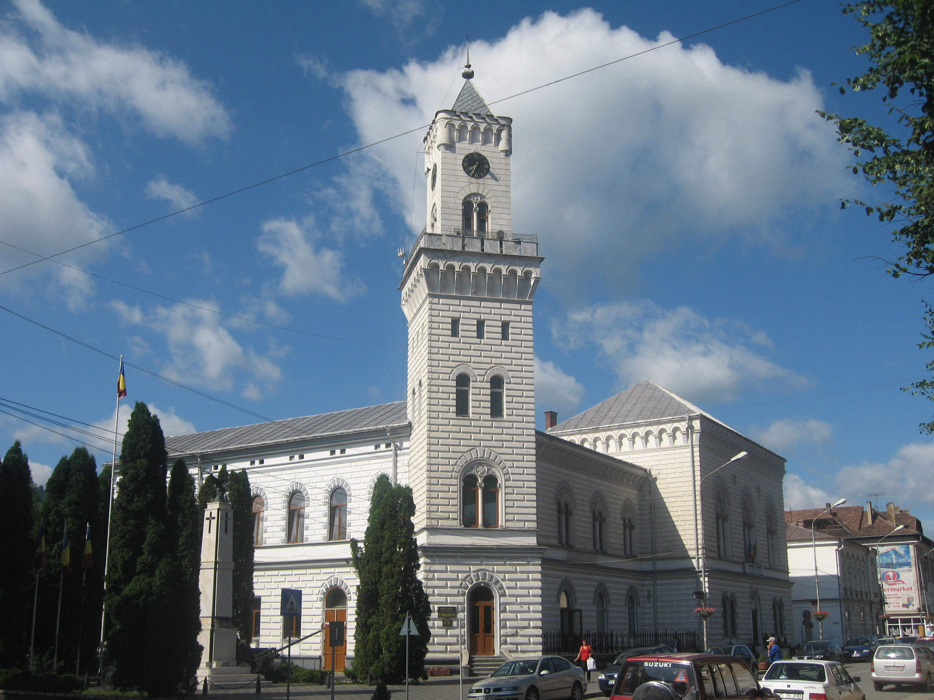 The City Hall of Vatra Dornei, Romania